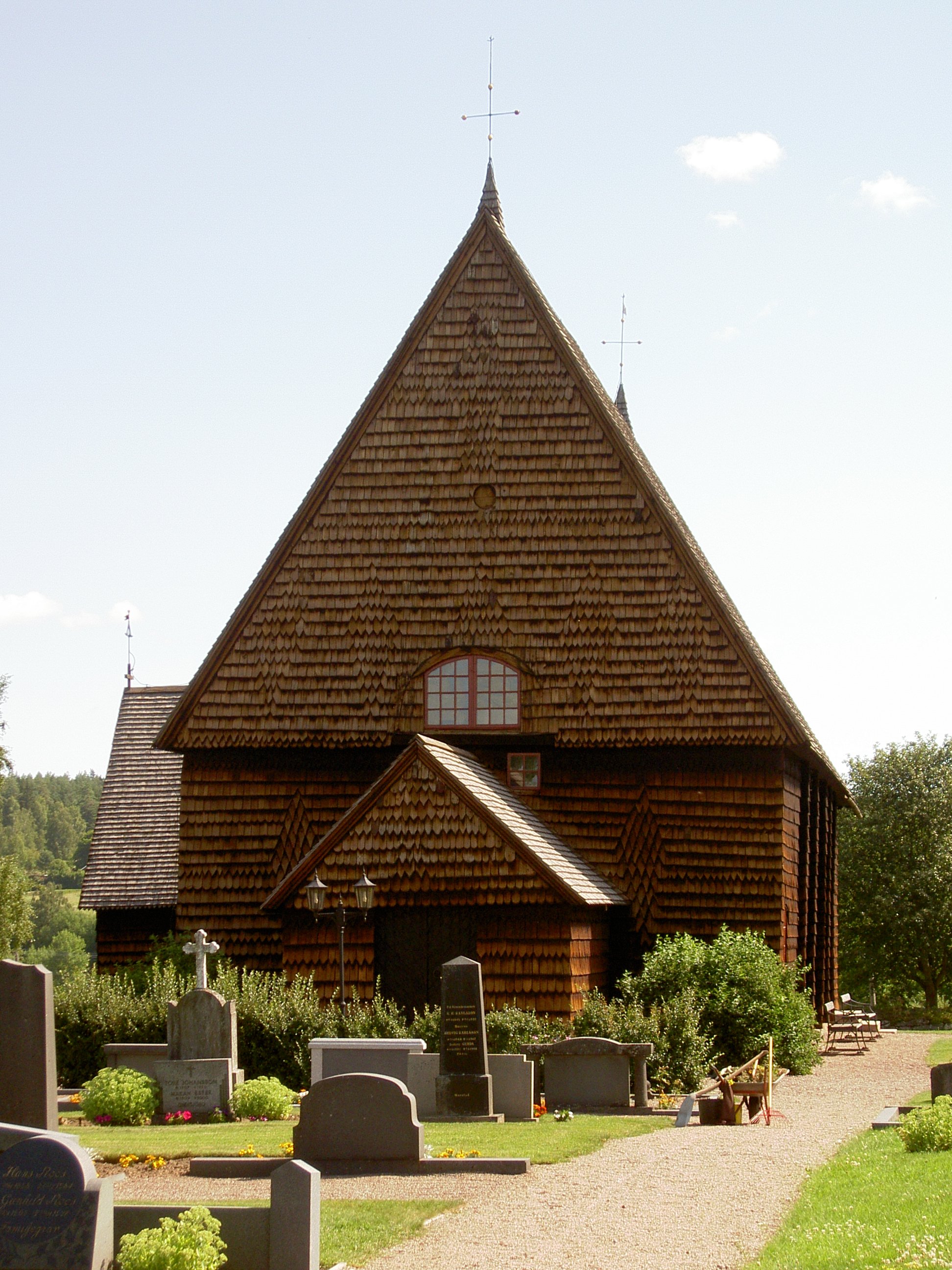 Djursdala church